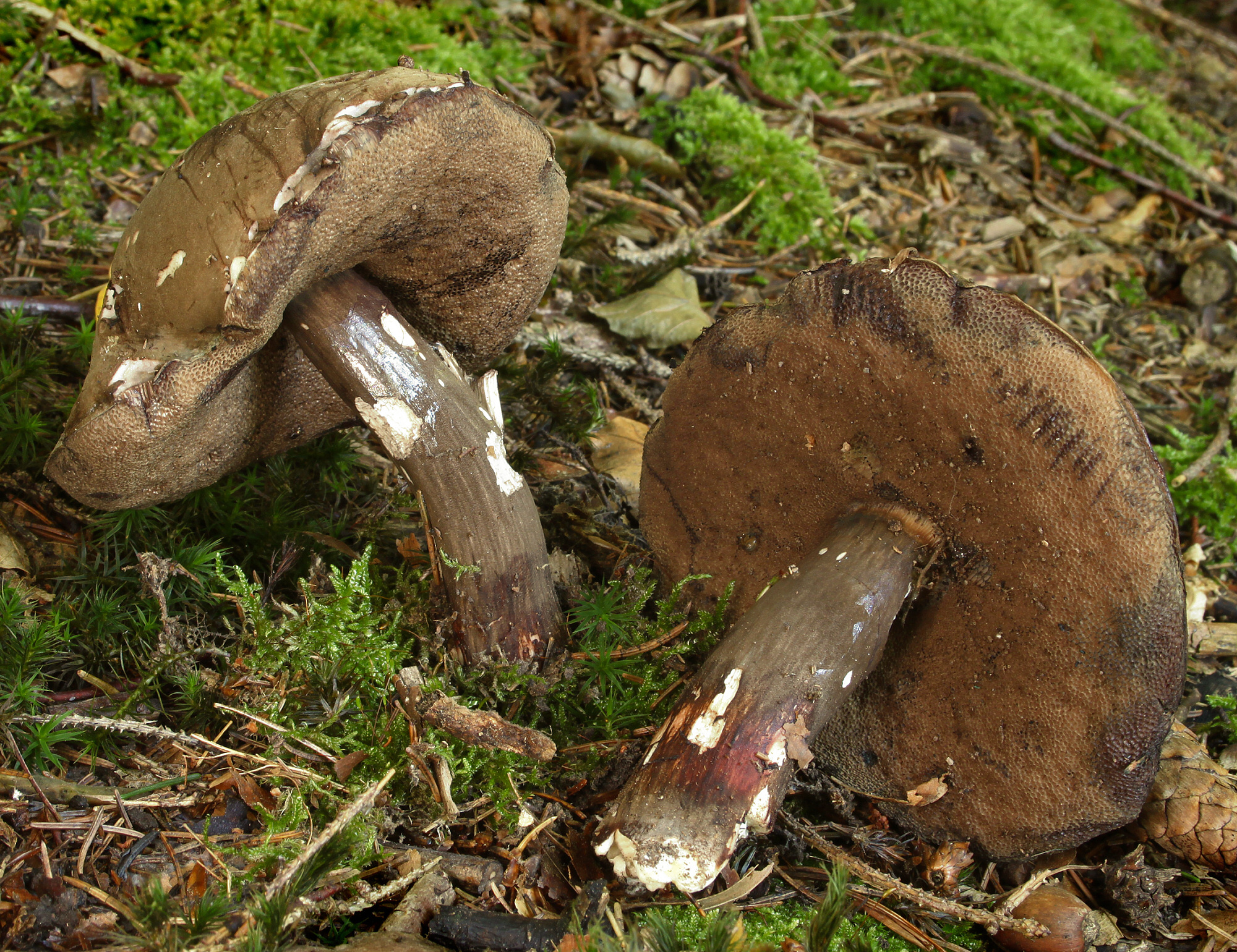 Dusky Bolete Porphyrellus porphyrosporus Syn. Porphyrellus pseudoscaber, Family: Boletaceae, Location: Germany, Biberach